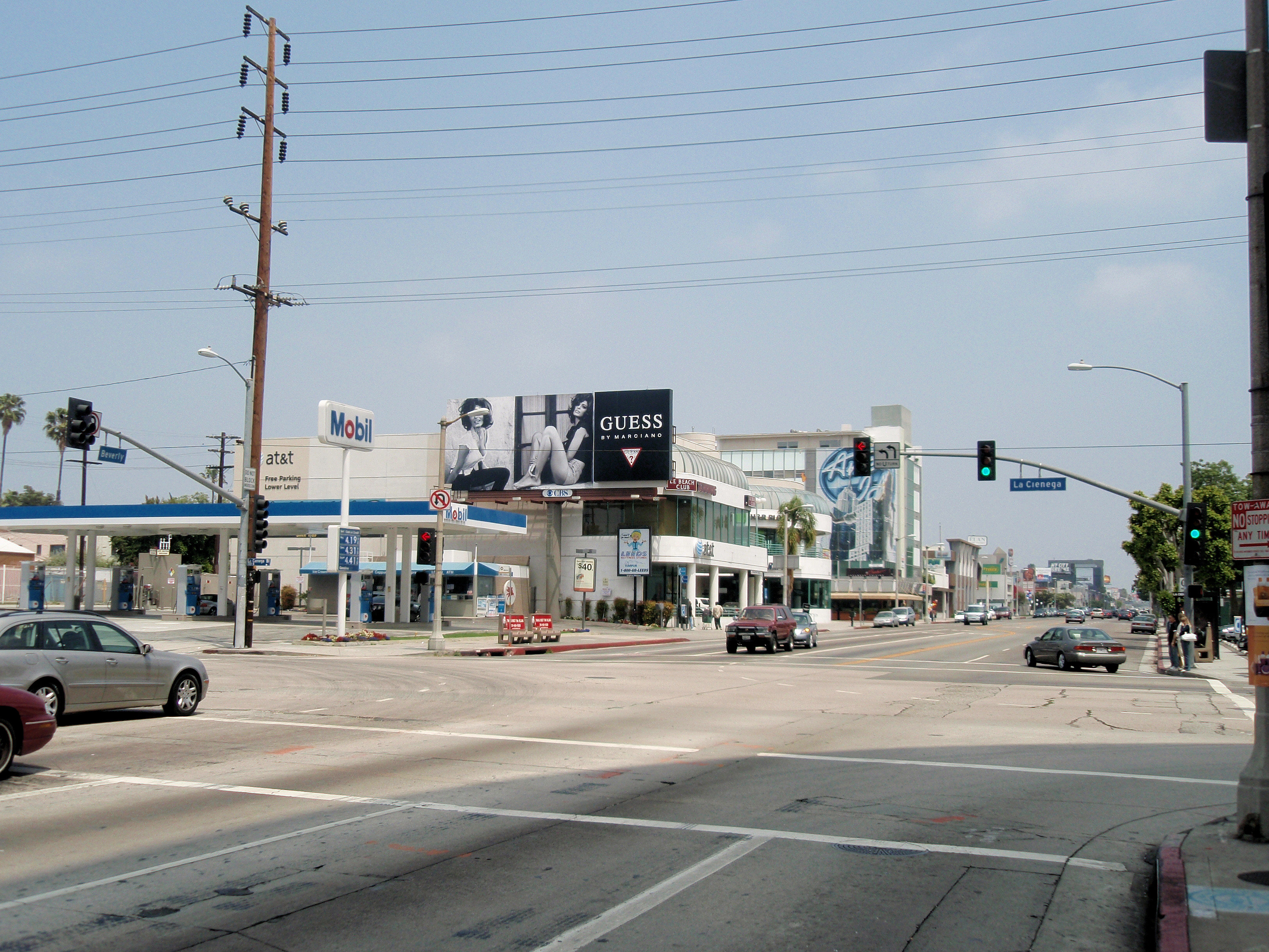 The intersection of Beverly Boulevard and La Cienega Boulevard in Los Angeles. This is the center of the studio zone. The perspective is facing northeast (from the sidewalk on Beverly that runs alongside the Beverly Center). Photographed by user Coolcaesar on May 11, 2008.